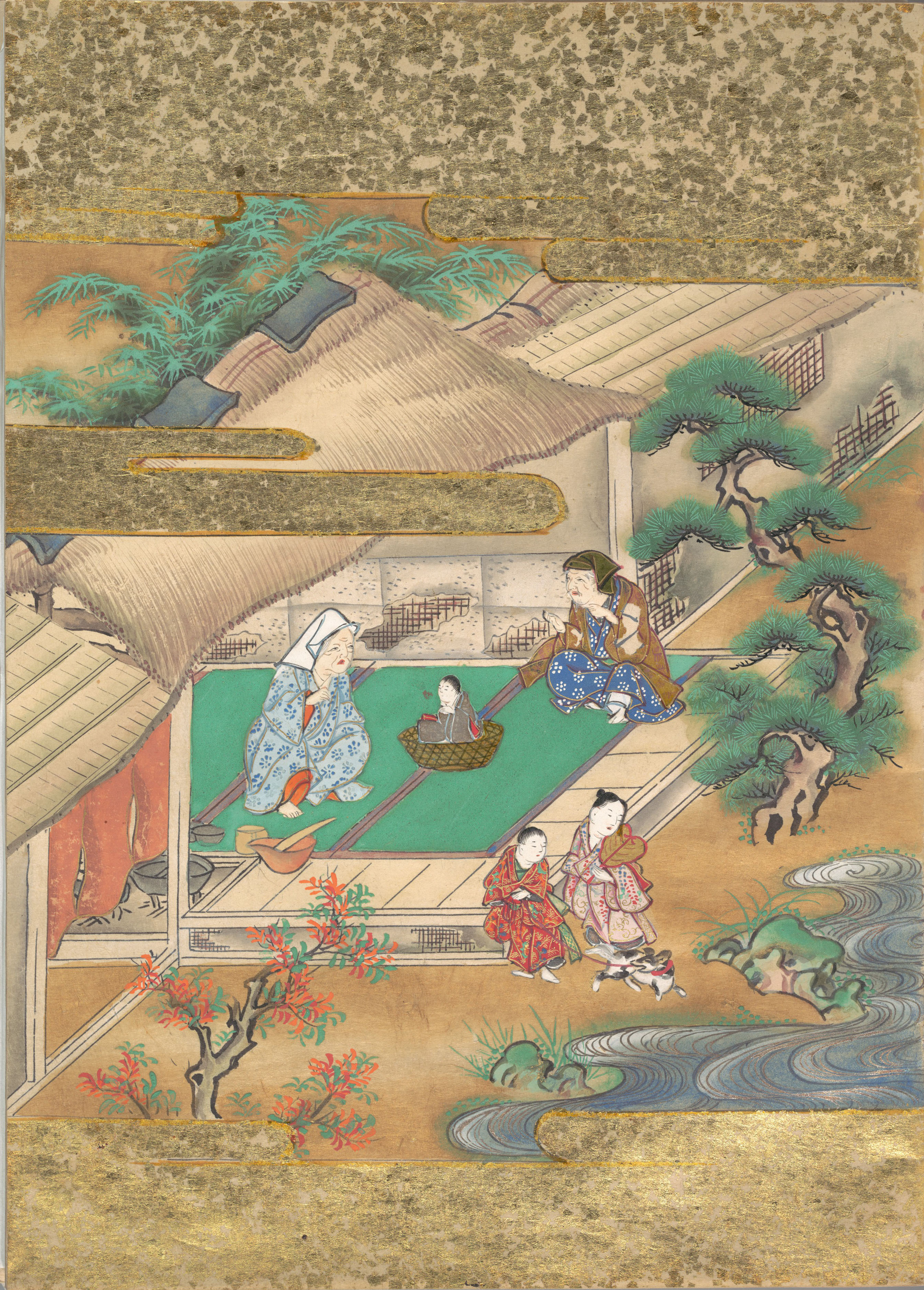 Hand painted page from a book set depicting The Tale of the Bamboo Cutter. Reproduction, measures 9 1/8 x 6 9/16 in. (23.2 x 16.7 cm).